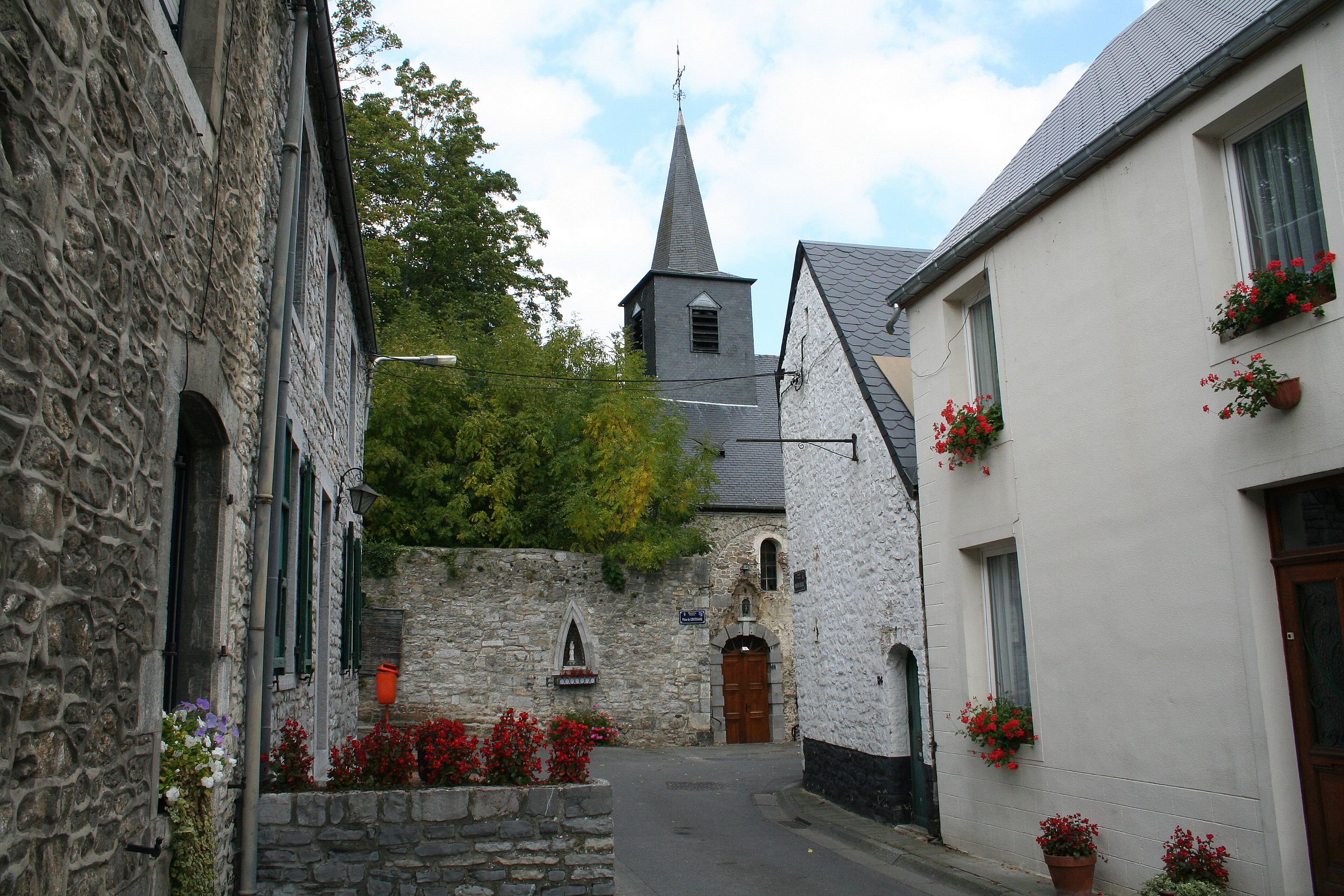 Waulsort (Belgium), rue de l’Église.